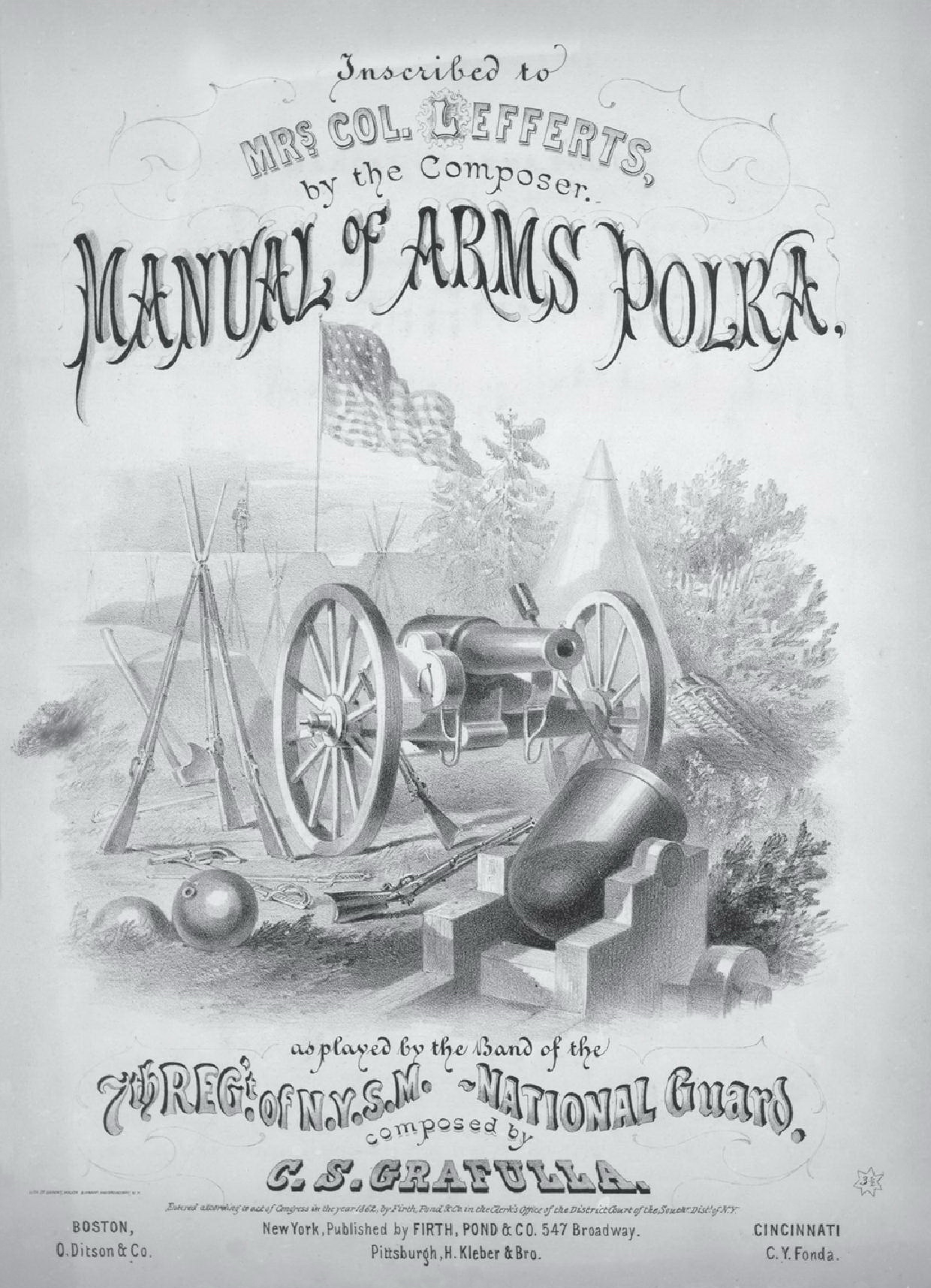 Cover Sheet of the "Manual of Arms Polka" by Claudio S. Grafulla, published by Firth, Pond & Company, New York in 1862